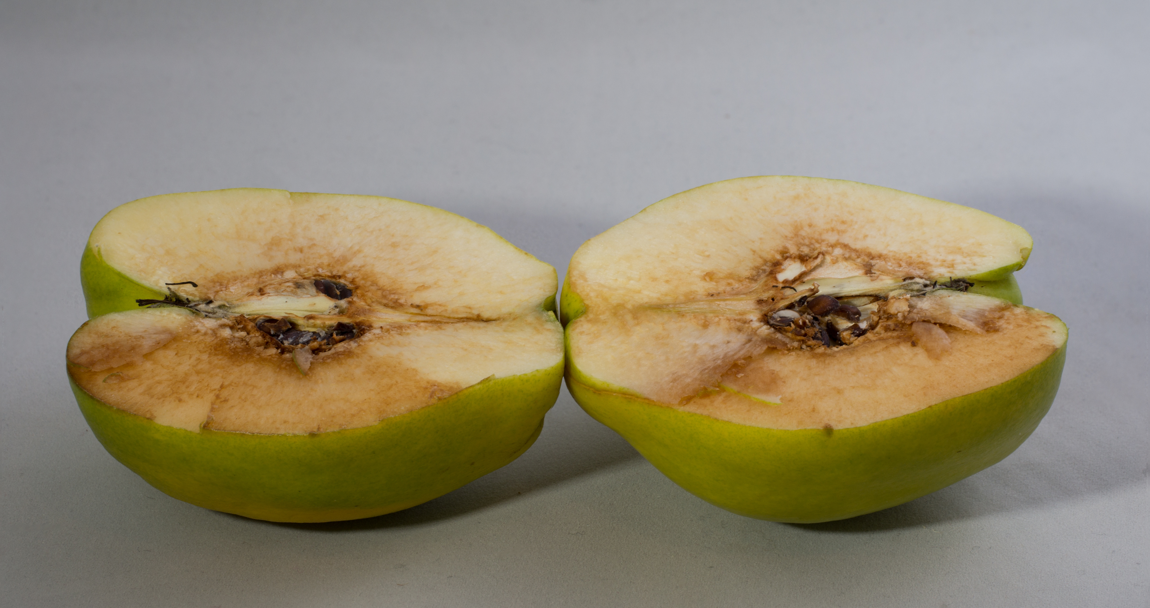 Quince - halved - starting to brown.